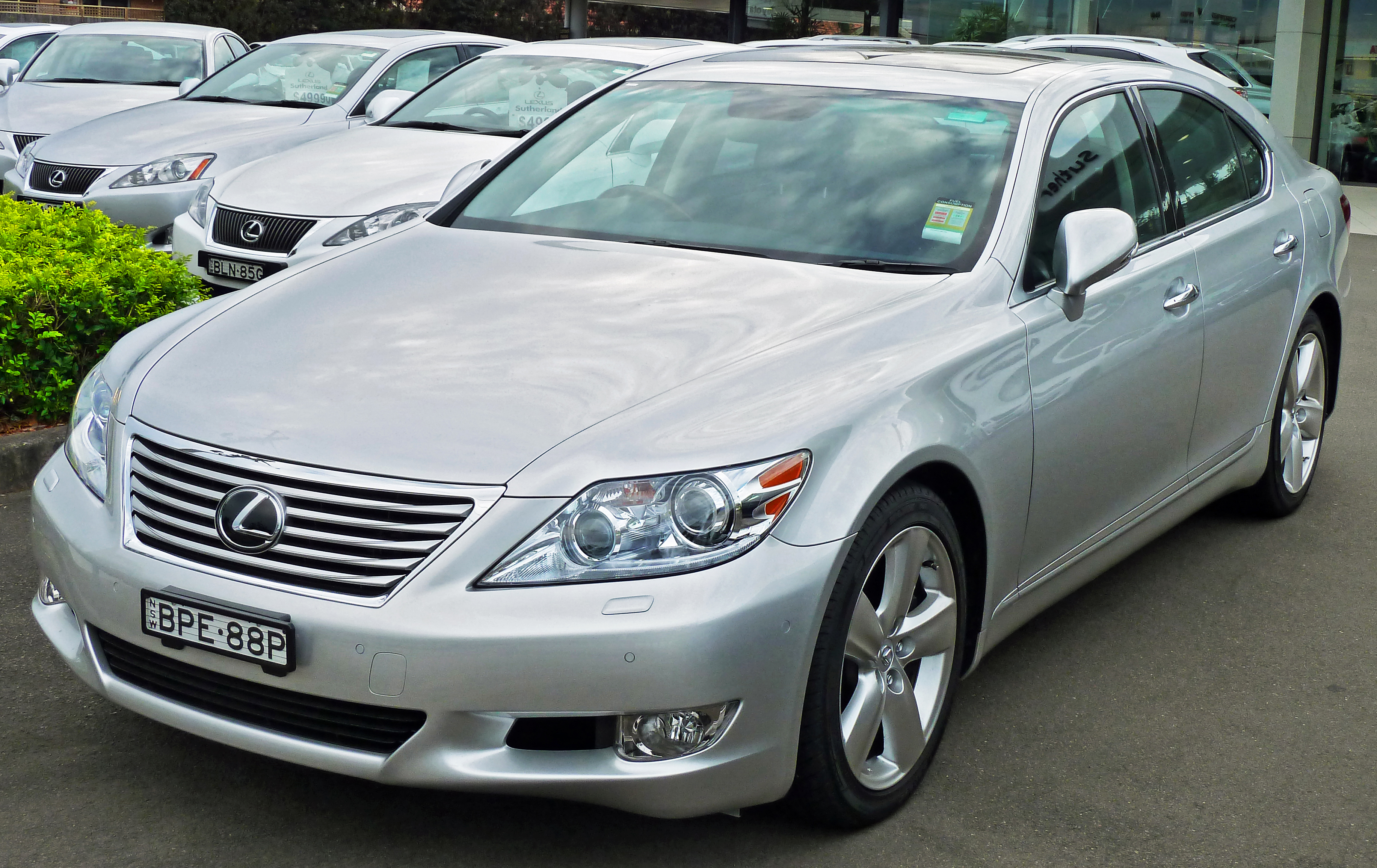 2010–2011 Lexus LS 460 (USF40R MY10) sedan. Photographed at Lexus of Sutherland, Kirrawee, New South Wales, Australia.